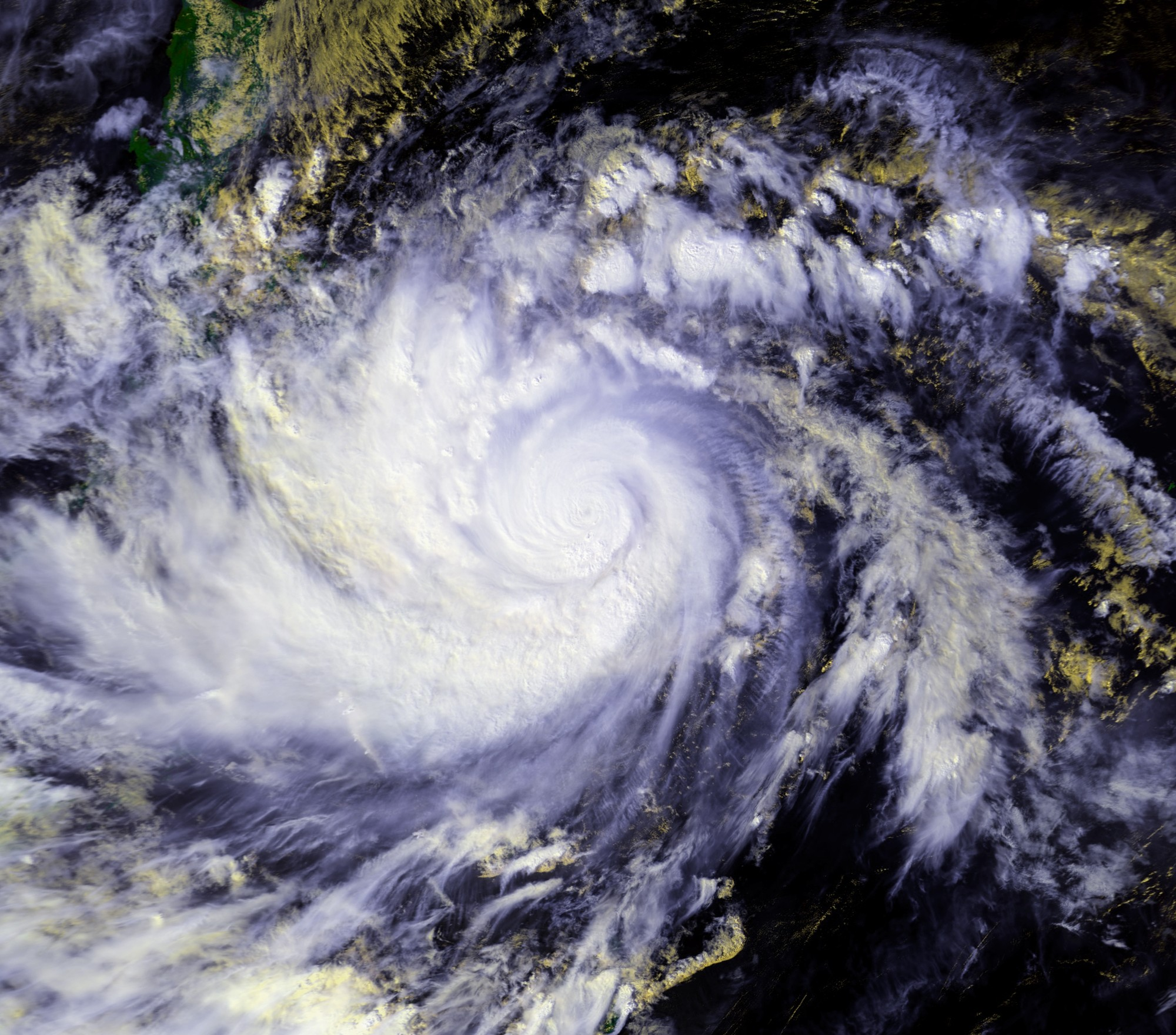 Typhoon Mike nearing landfall on November 12 at 0523 UTC. This image was produced from data from NOAA-11, provided by NOAA.